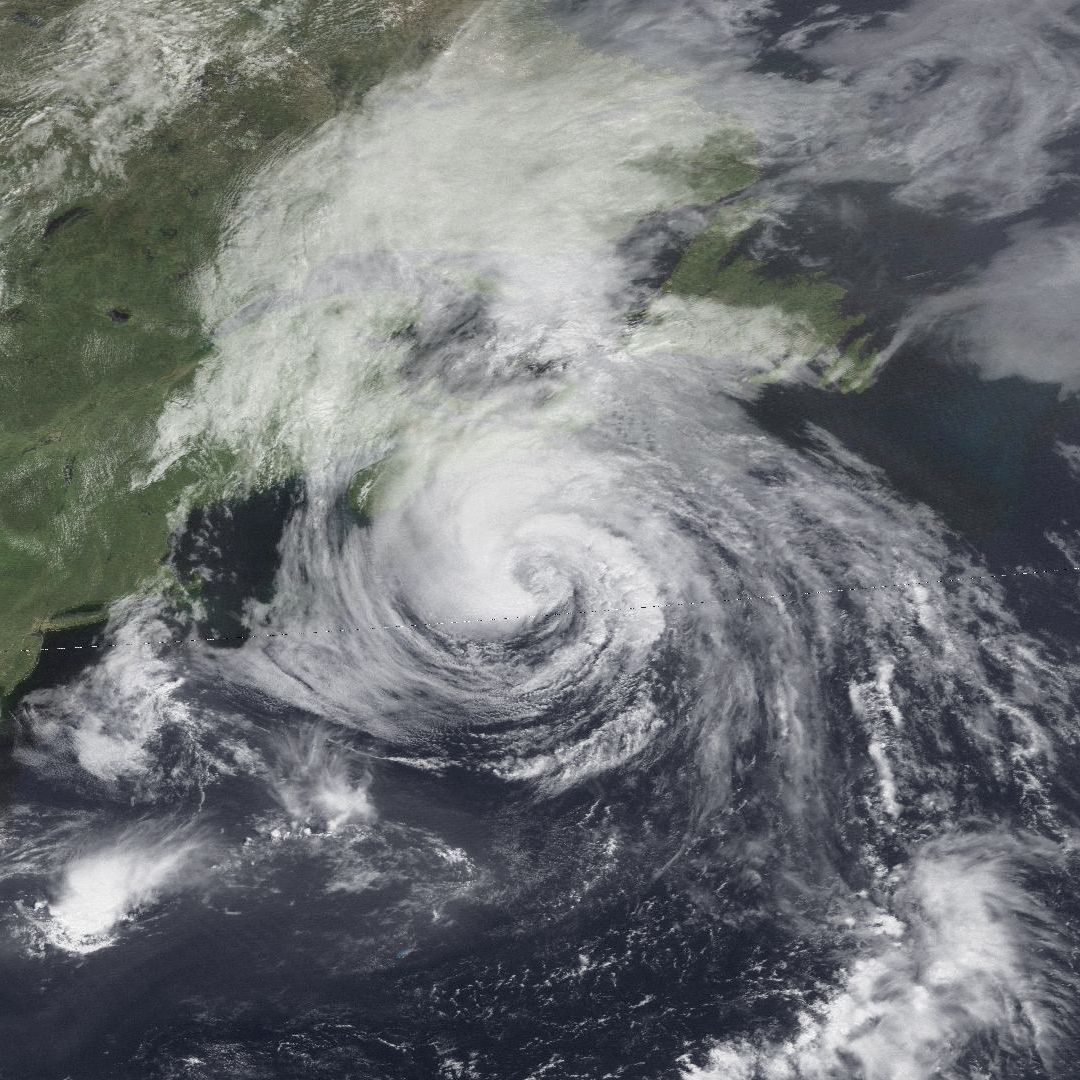 Hurricane Bertha at peak intensity near landfall in Nova Scotia on August 1, 1990